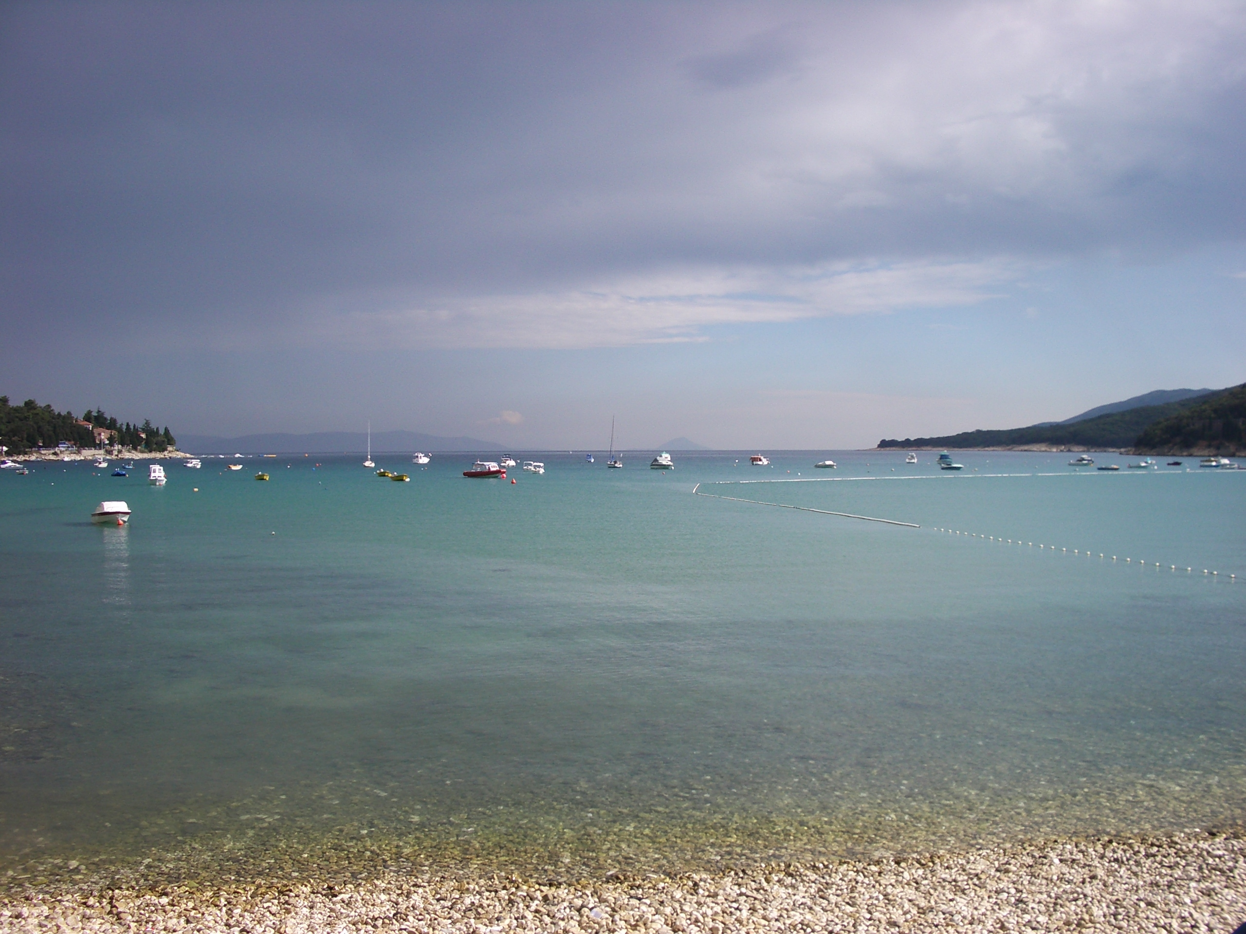 Port ofRabac, city of Istria, region in Croatia.